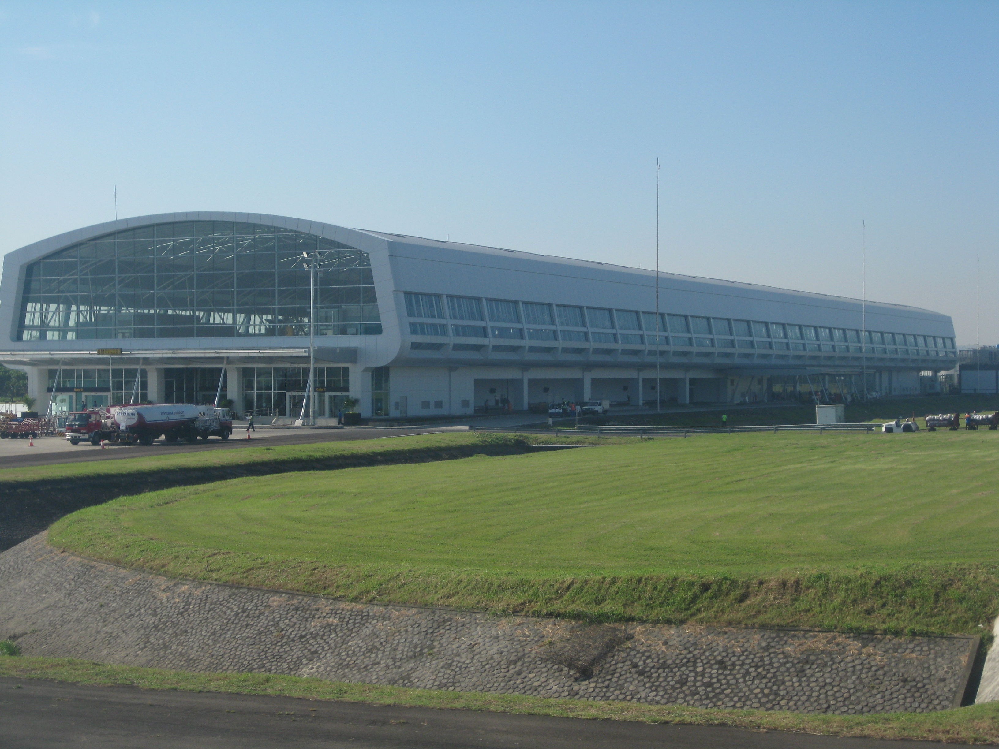 The outside view of Terminal 3 at Soekarno-Hatta International Airport, Jakarta